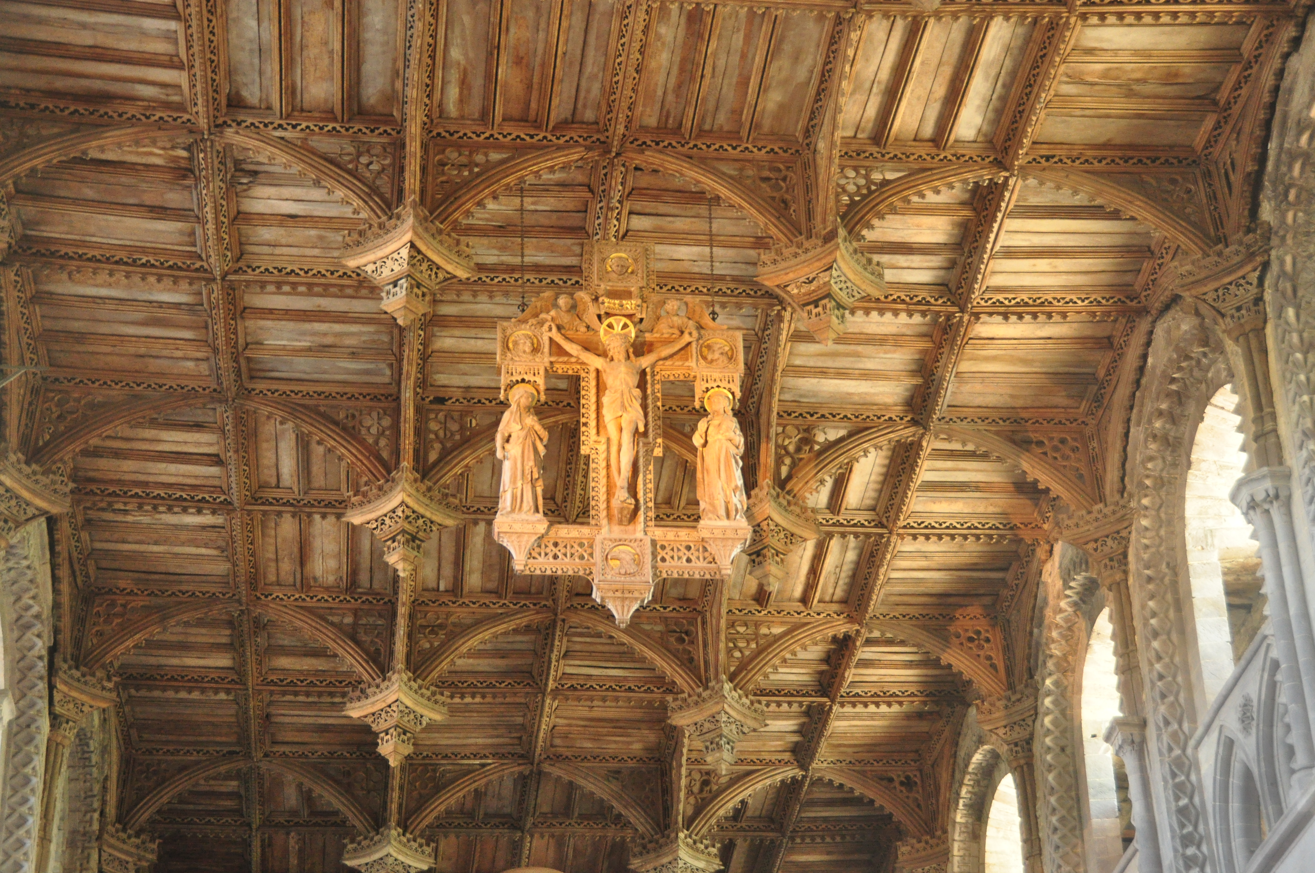 St David's Cathedral